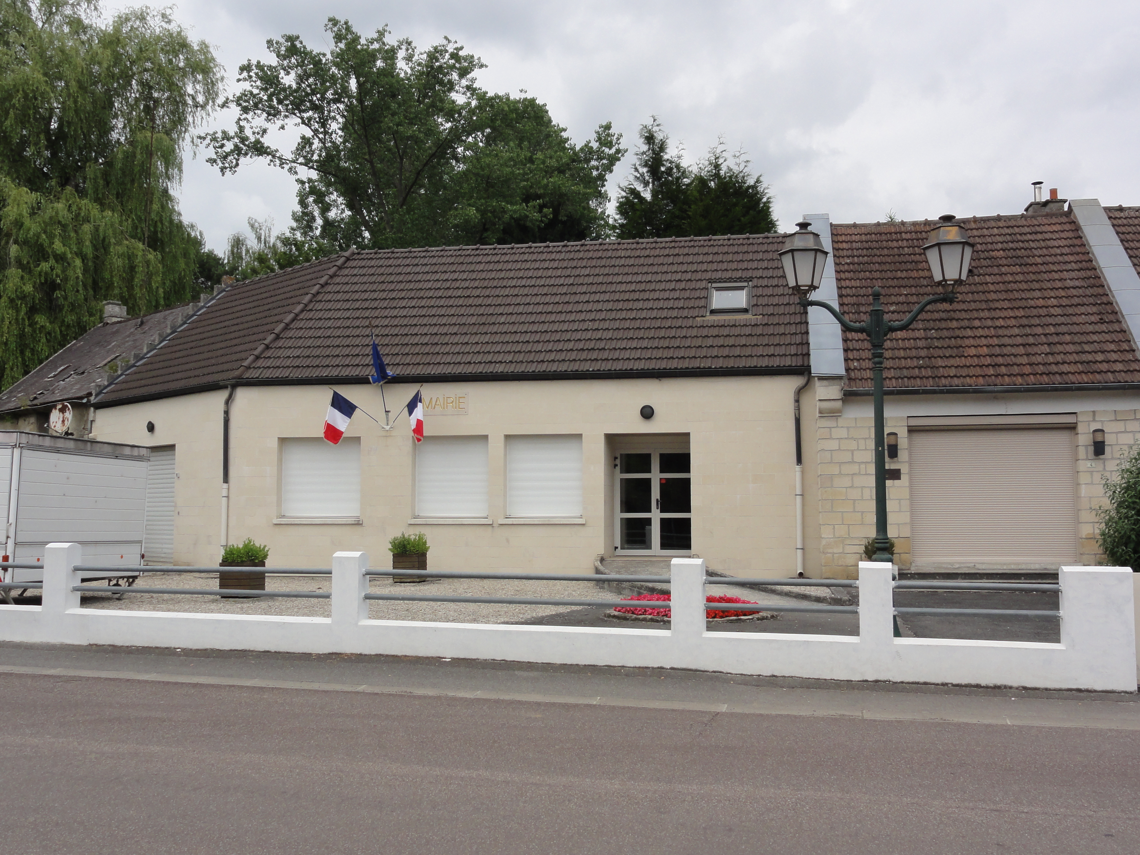 Retheuil (Aisne) mairie